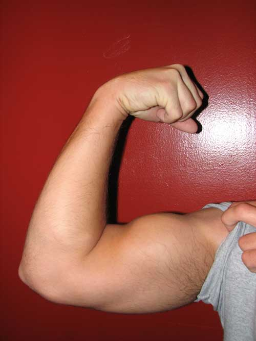 Tensed biceps brachii and brachialis muscles, with the forearm supinated and the elbow in a flexed position. Photo of right arm of a male 27 year old wrestler. (23K) The majority of the bulk here is the brachialis. See also the related image Image:Arm flex pronate.jpg.